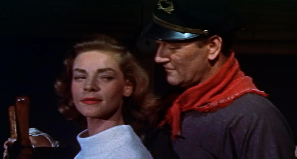 Lauren Bacall and John Wayne in Blood Alley (1955) - trailer (cropped screenshot)